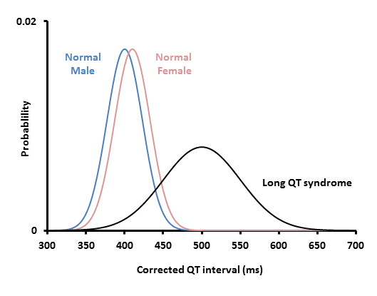 Adapted from Taggart et. al. (2007) Circulation